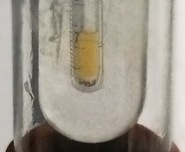 A tube with liquid fluorine in a cryogenic bath